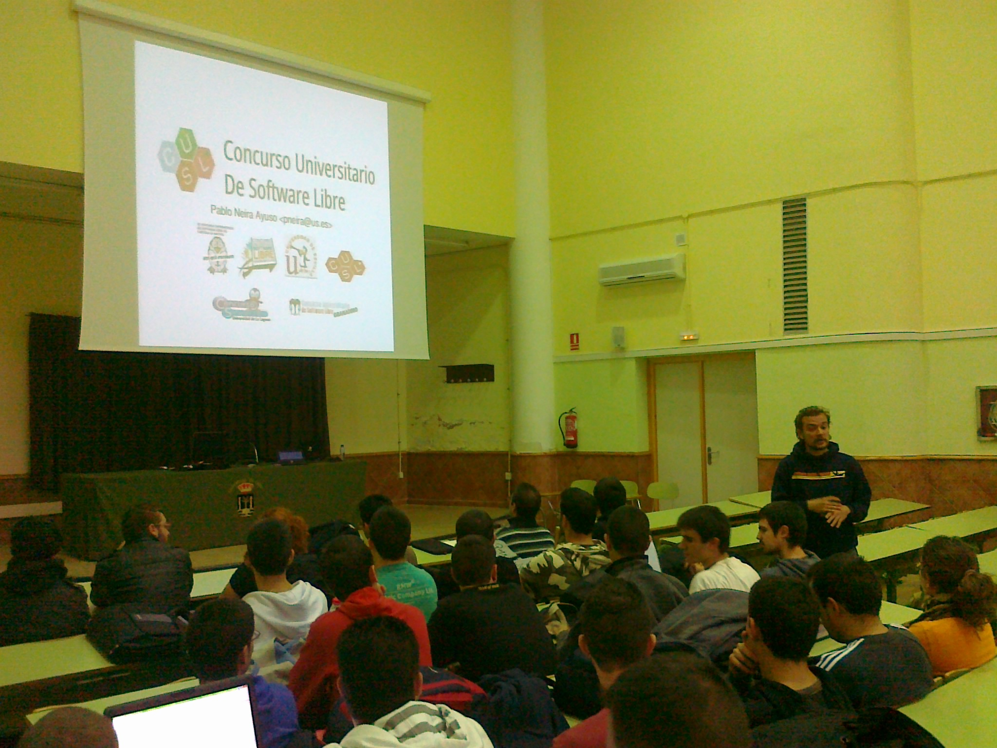 CUSL at University of Cadiz